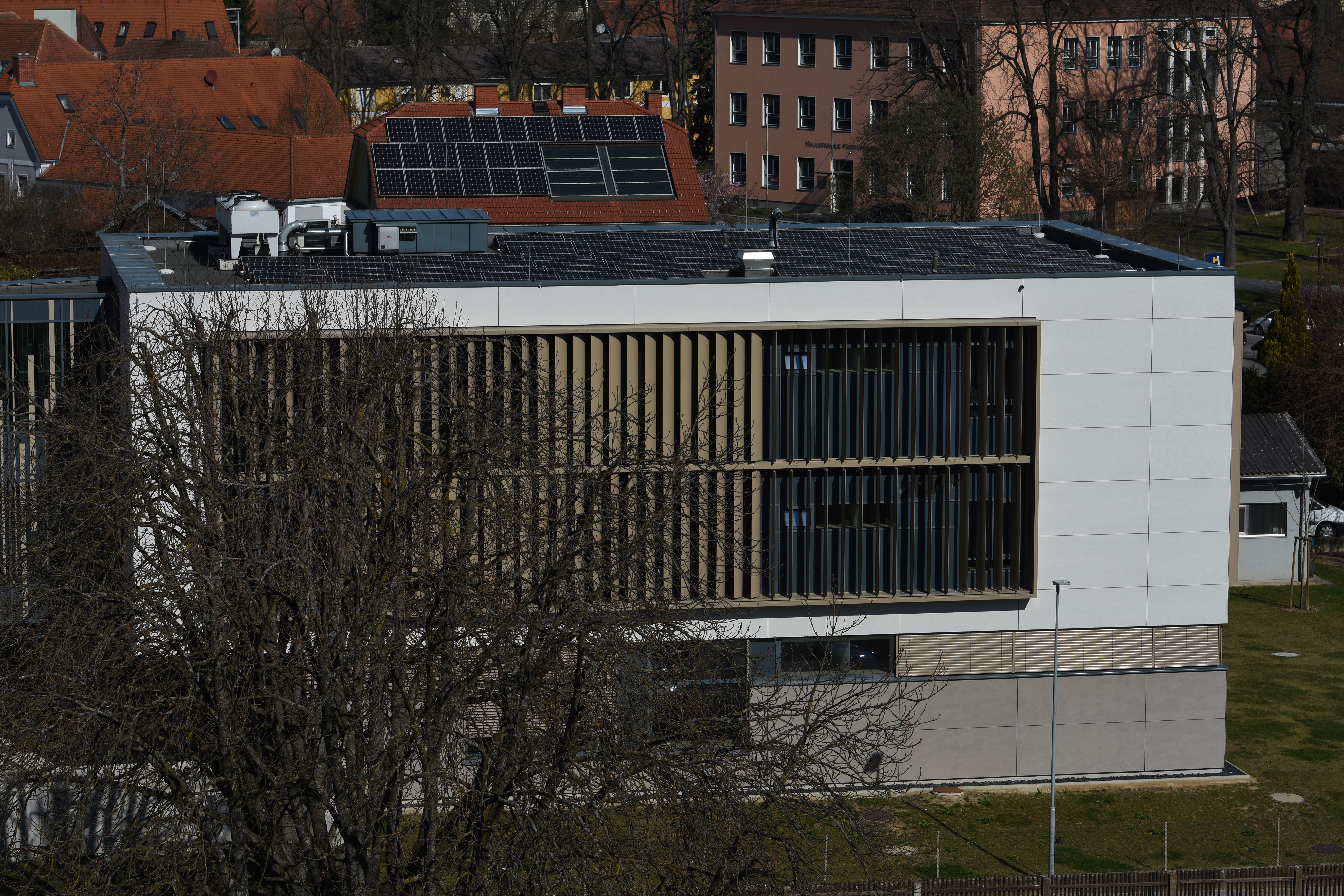 Fürstenfeld